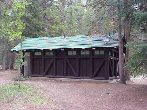 Exterior of Timber Creek Campground Comfort Station No. 247, located in the Timber Creek Campground off U.S. Route 34 (Trail Ridge Road) in the Grand County portion of Rocky Mountain National Park, north of Grand Lake, Colorado, United States. Built in 1939, it is listed on the National Register of Historic Places.